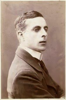 Portrait of Arthur Henry Adams (1872-1936)